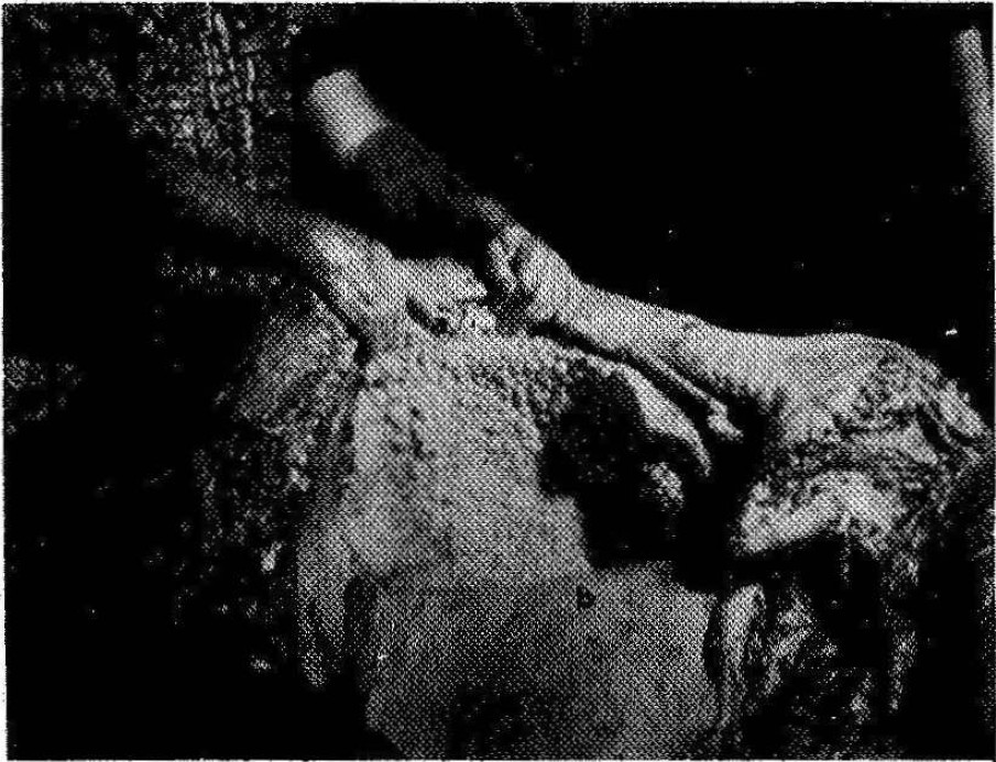 The frontal sac of a sperm whale, exposed. The knobbly surface is the posterior wall of the sac.